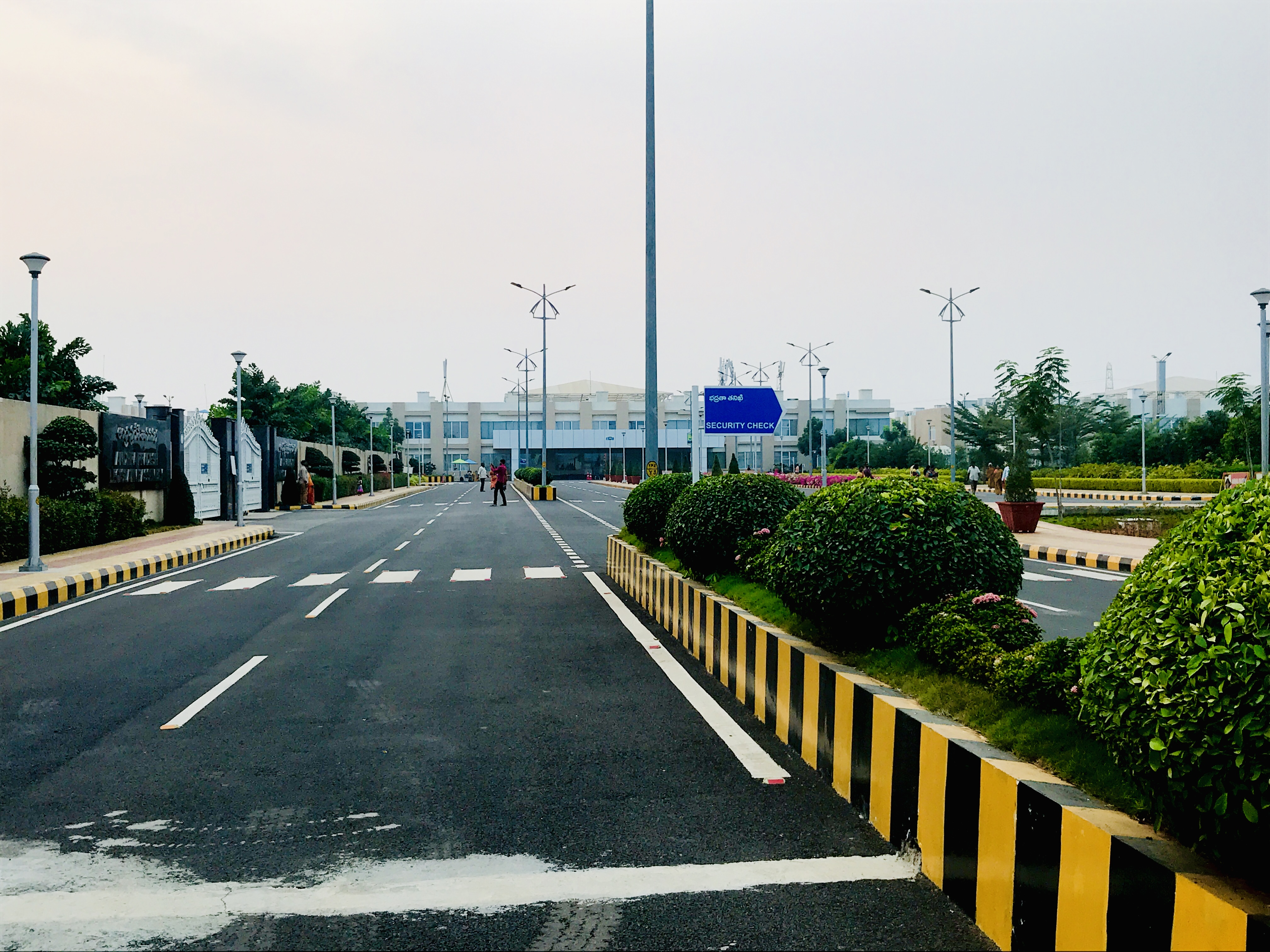 Amaravati is a planned city in Andhra Pradesh which was designed by Architect Norman Forster